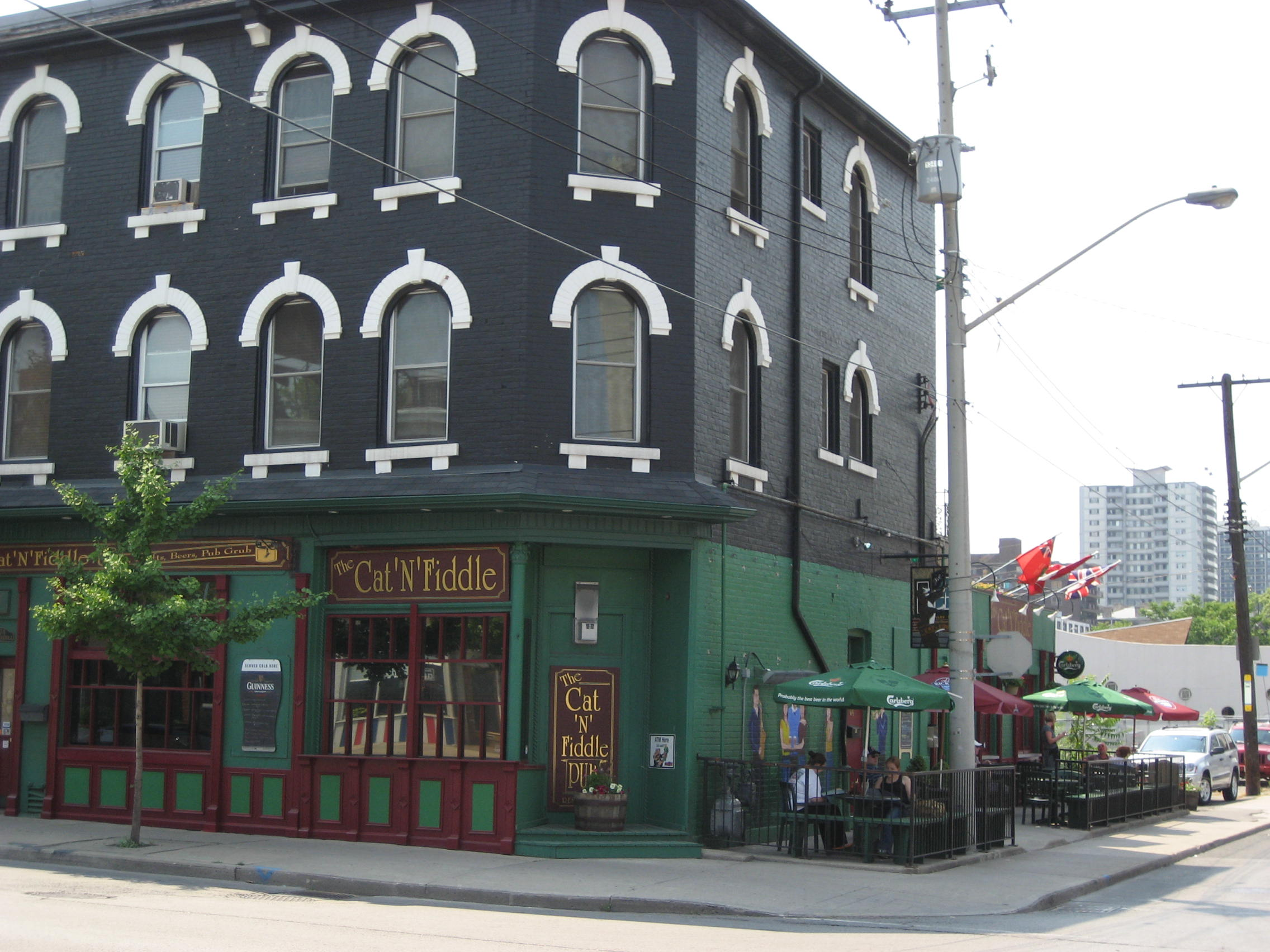 Popular hangout, John Street South, downtown, Hamilton, Ontario